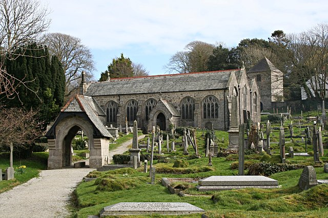 Gwennap Parish Church. This church is dedicated to St. Wennappa and is a large church in a tiny village.